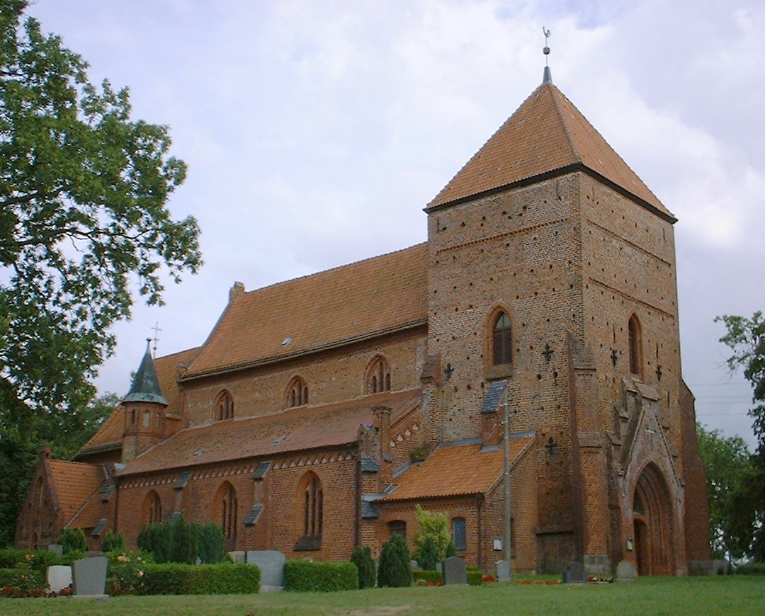 Church in Prebberede-Belitz in Mecklenburg-Western Pomerania, Germany